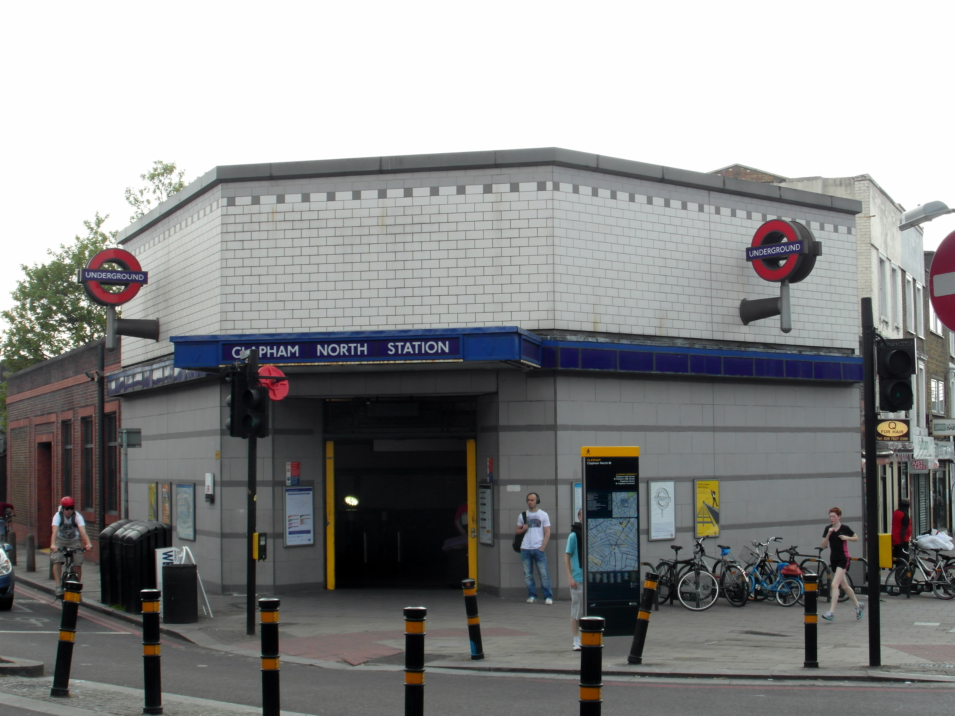 The station opened as Clapham Road on 3 June 1900 as part of an extension of the City & South London Railway to Clapham Common. The original station building was remodeleld in the mid-1920s by Charles Holden